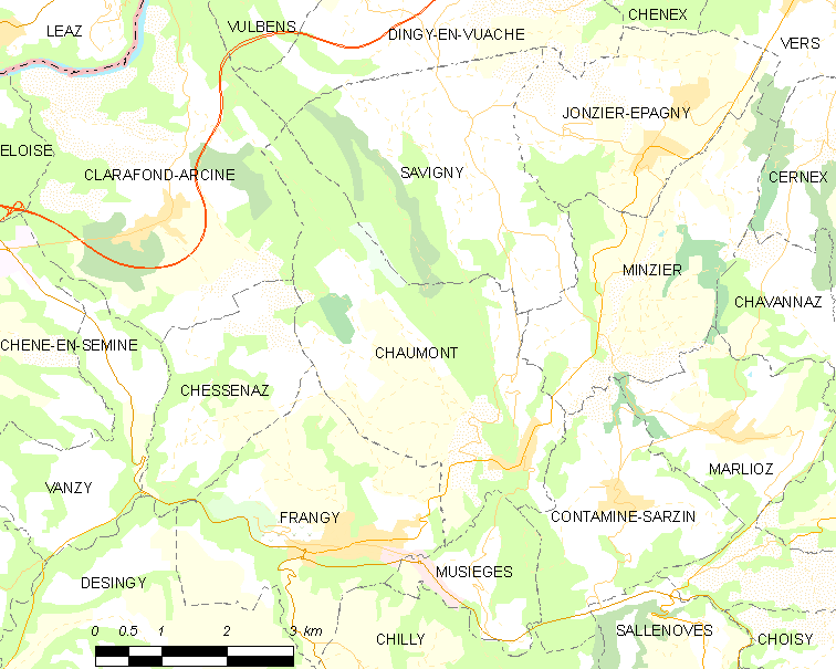 Map of French municipality Chaumont